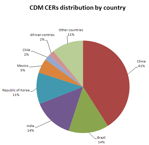 The chart shows the emission reductions (CER's) expected from CDM projects by country in which the emissions were reduced.